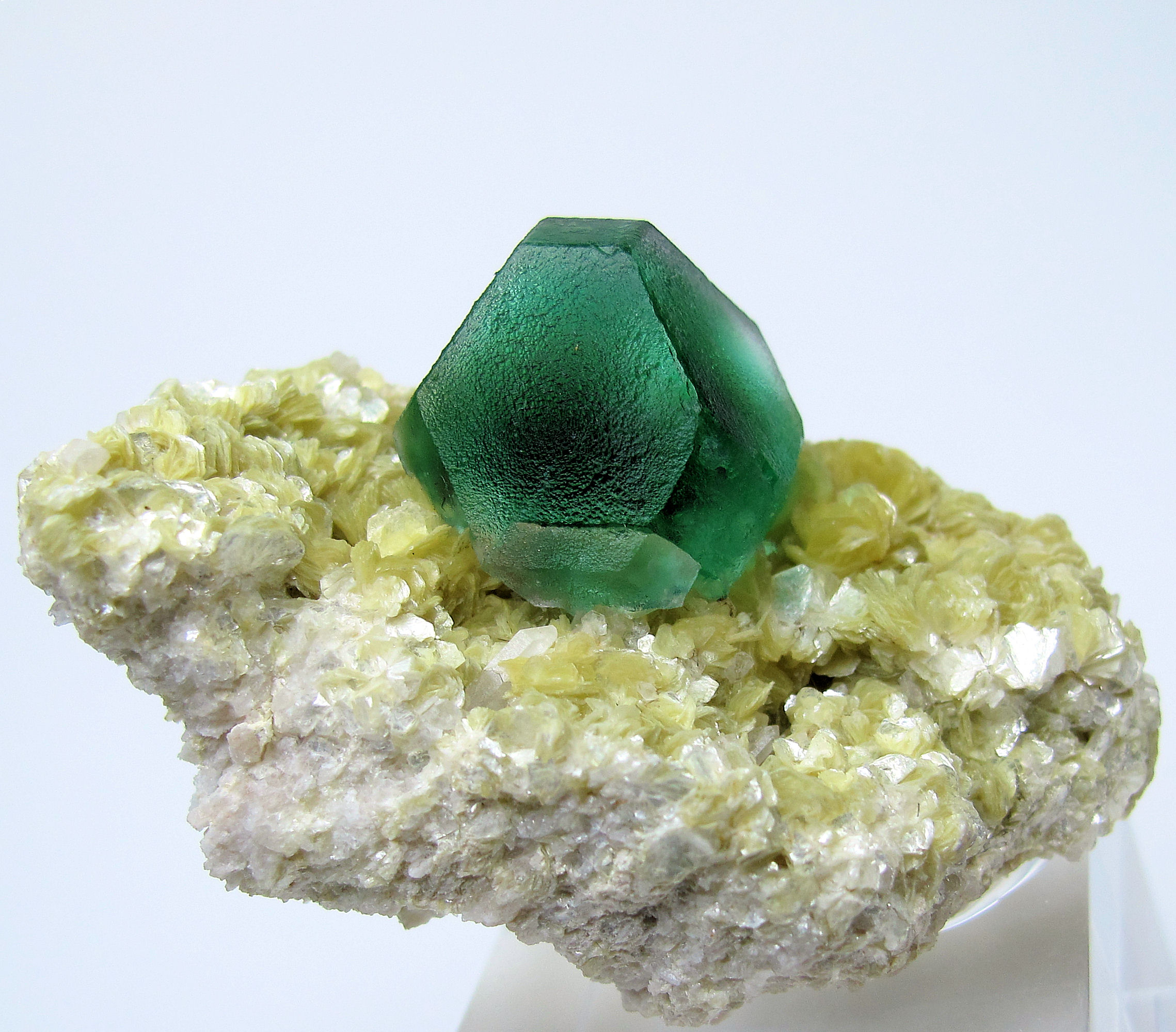 Deep green isolated fluorite crystal showing cubic {100} and octahedral {111} faces, complete and undamaged, set upon a micaceous matrix. Overall size: 50 mm x 27 mm. Crystal size: 19 mm wide. Weight: 30 g. From Erongo Mountain, Erongo Region, Namibia.